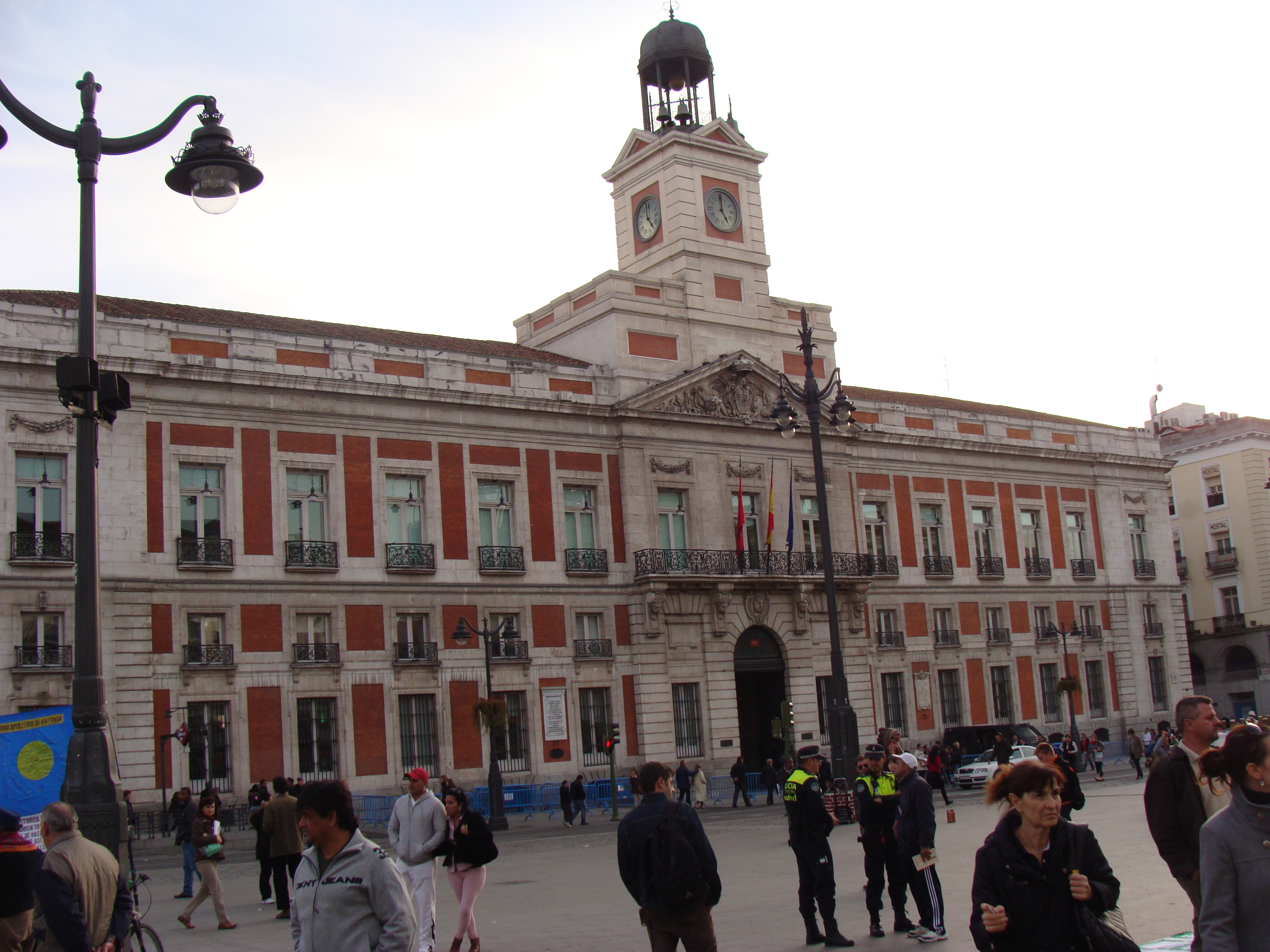 Real Casa de Correos, in Madrid, Spain